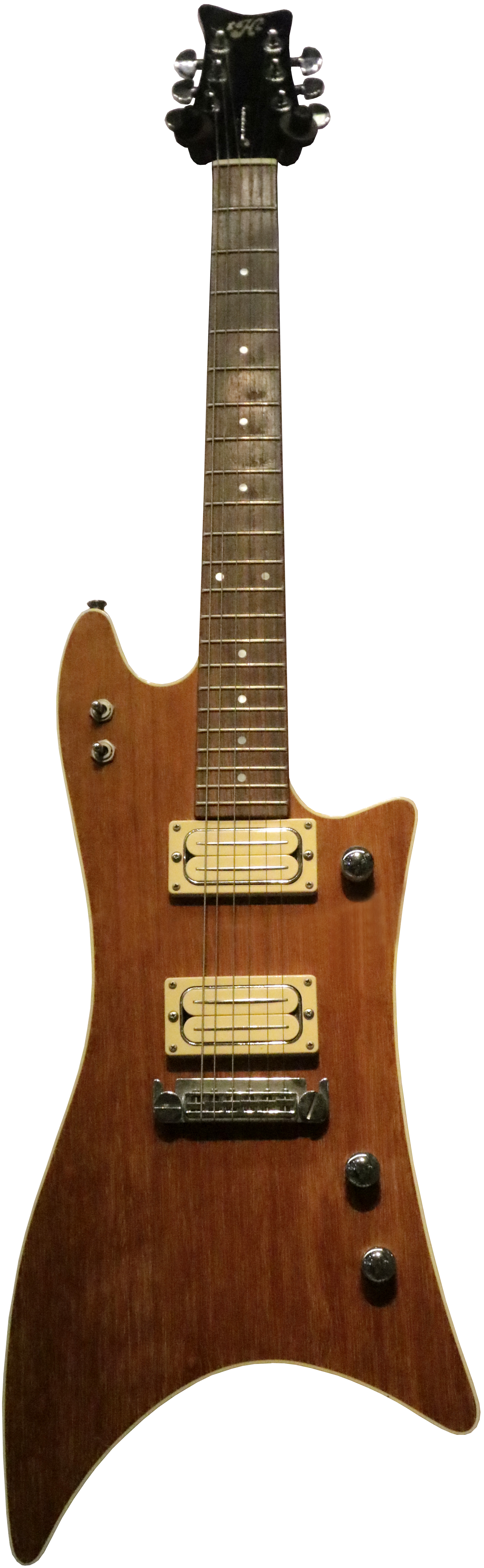 Bo Diddley's guitar (Rock and Roll Hall of Fame, Cleveland, OH).